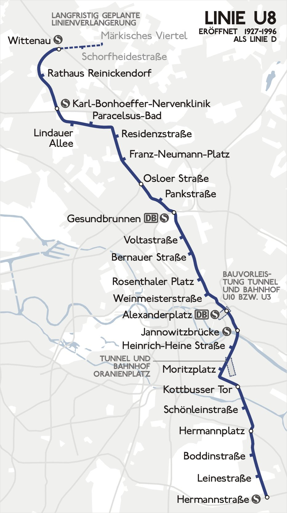 Map of Berlin's underground line U8